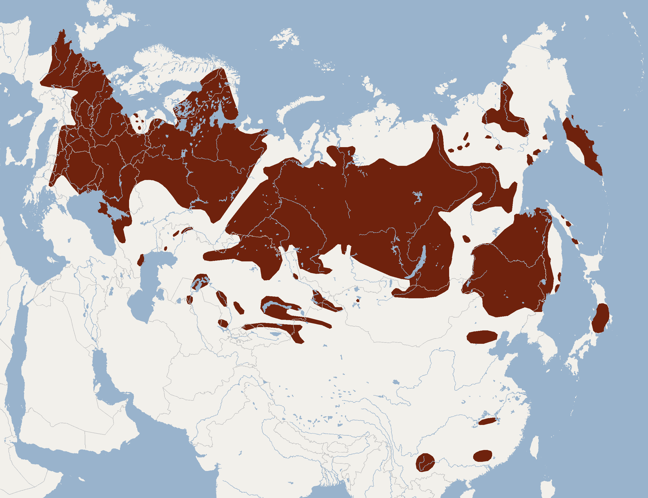 According to Gromov & Erbaeva, 1995